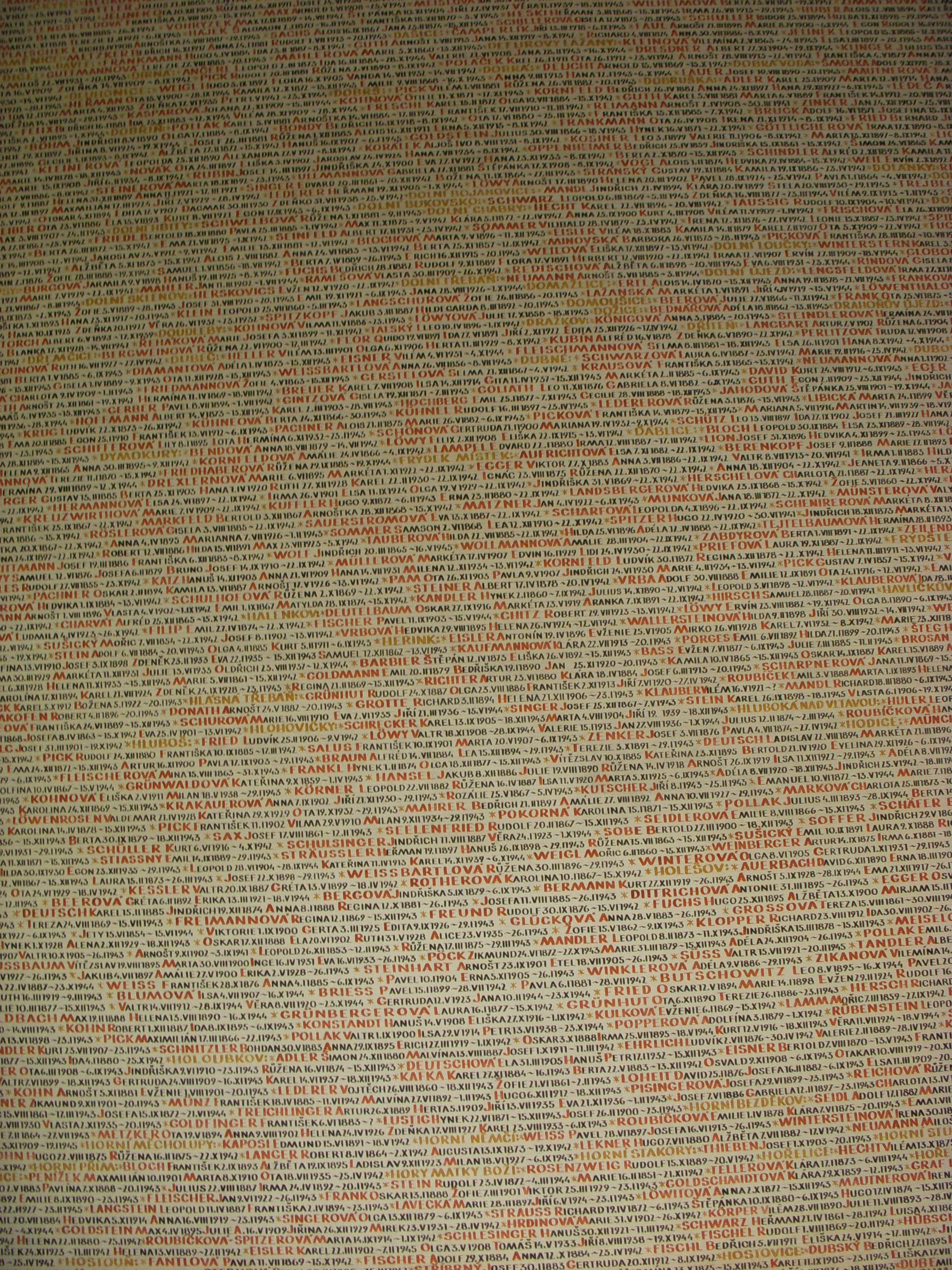 Original description from Flickr: Pinkas Synagogue. More names of victims of the Holocaust.